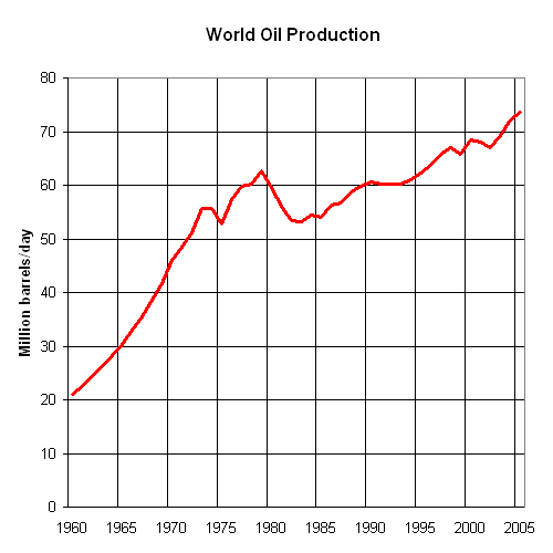 Plot of World oil production from 1960 to 2005 generated using Excel from data from the Energy Information Administration of the U.S. Department of Energy